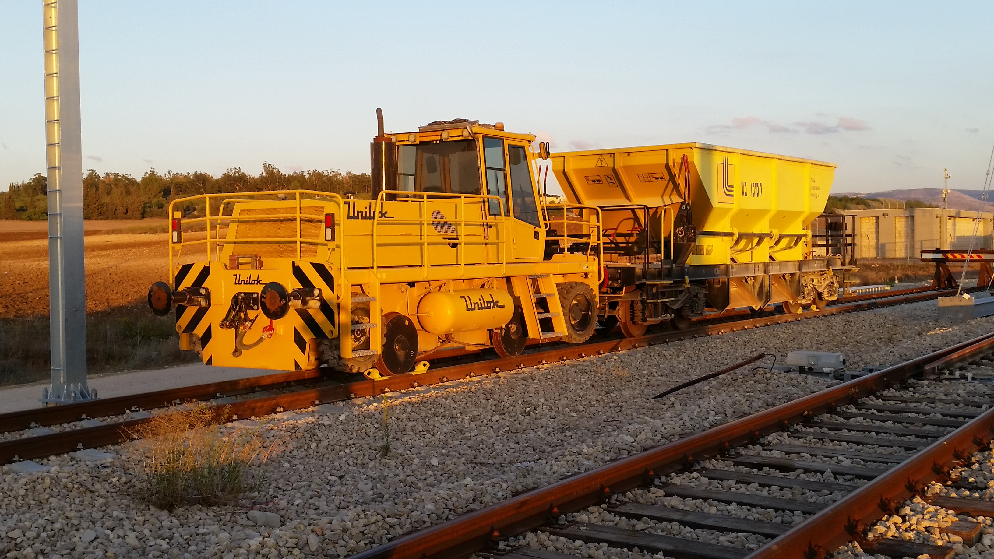 Railcar mover Unilok E55s of Lesico company